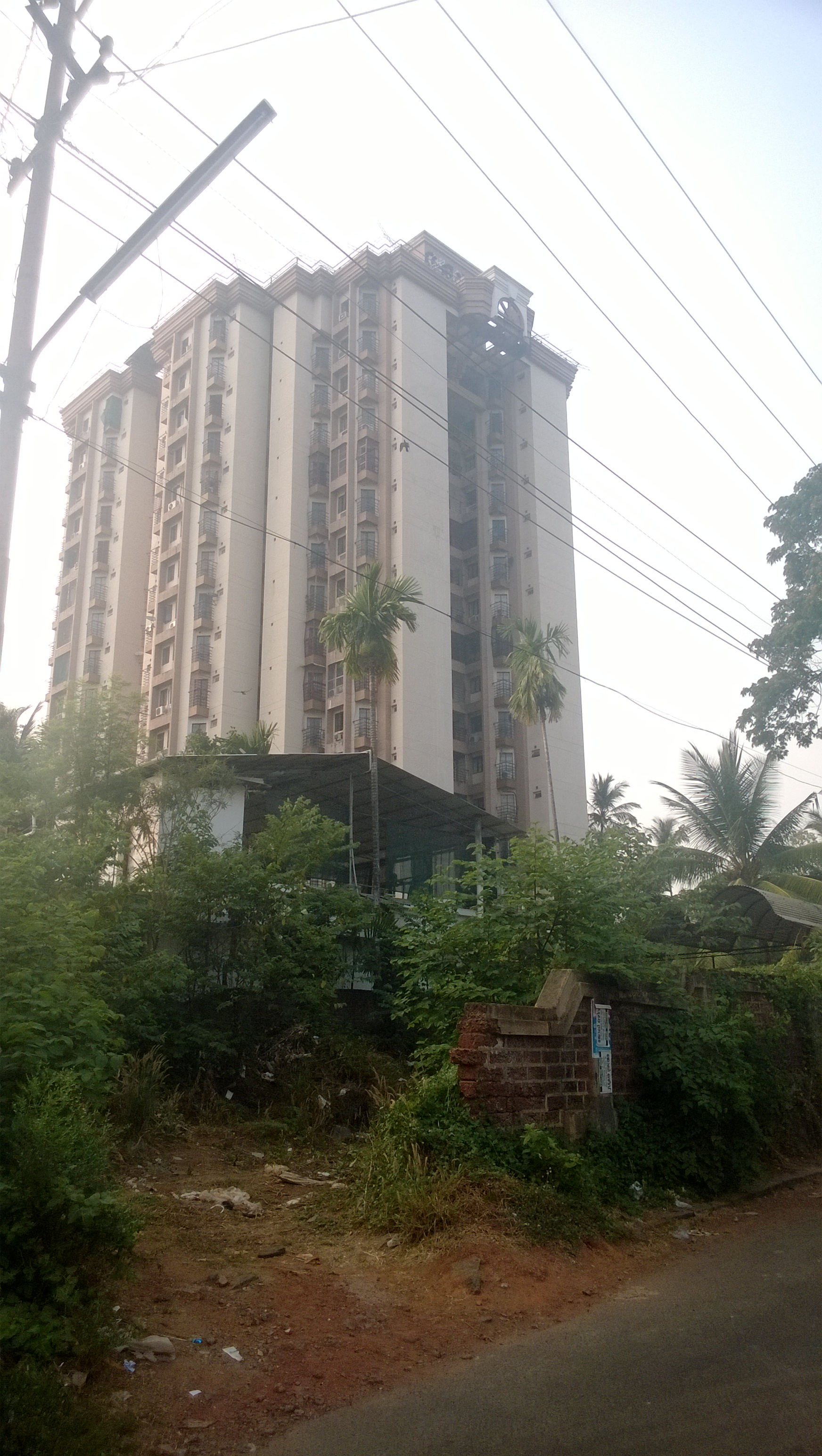 Cheloor Towers in Thrissur city